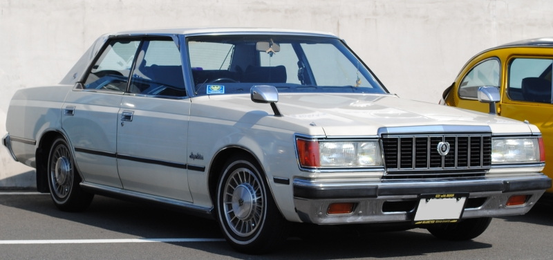 Toyota Crown.